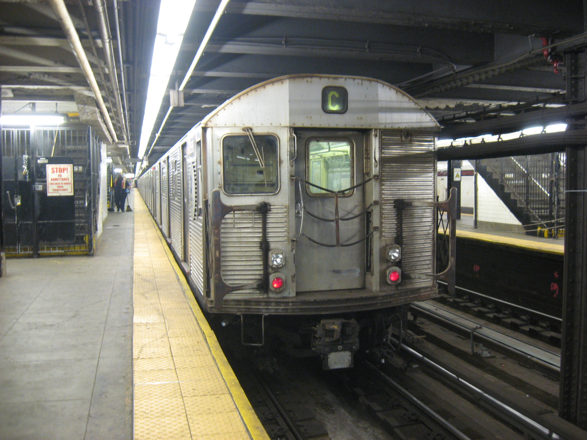 A C train with a consist of R32 cars awaits departure at 168th Street